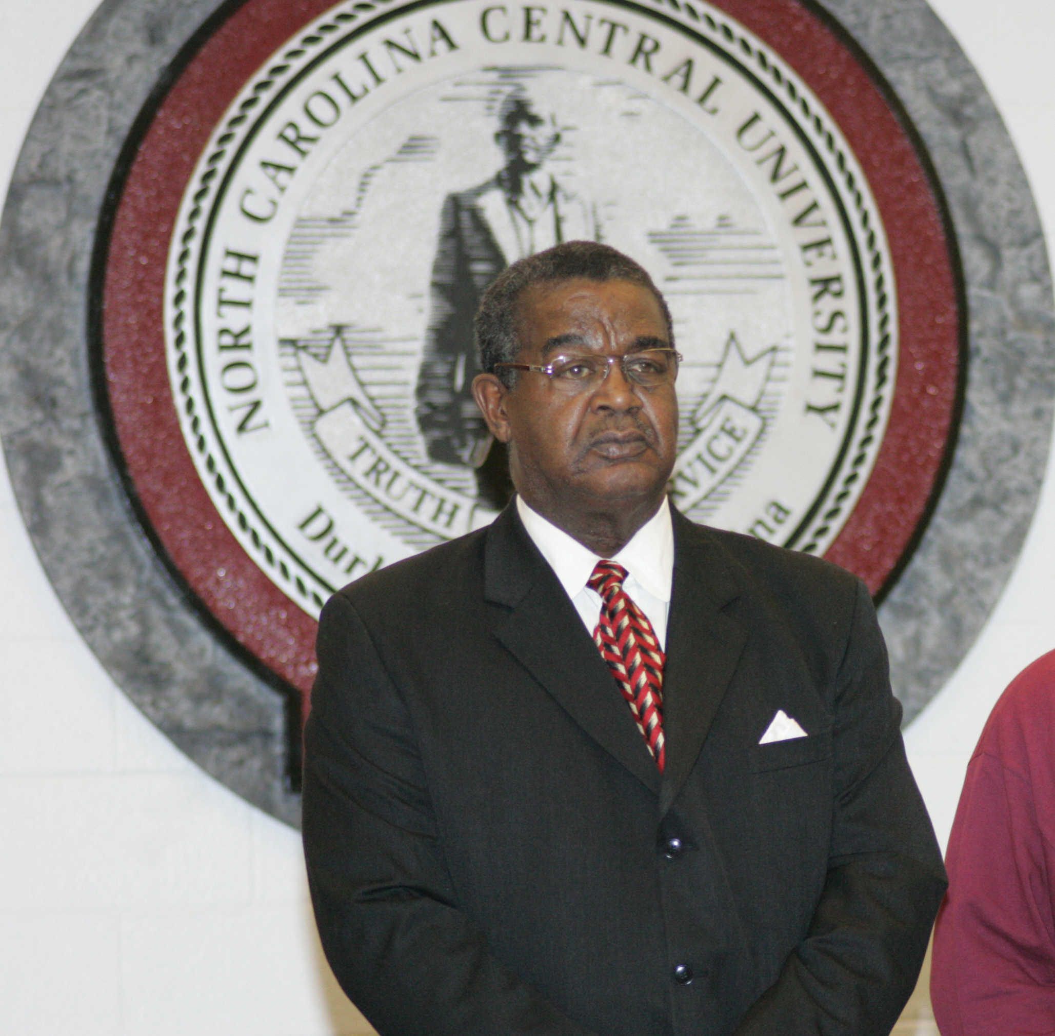 Bill Hayes as NCCU Athletics Director